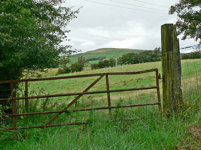 View toward Cefn Eglwysilan - Rhydyfelin